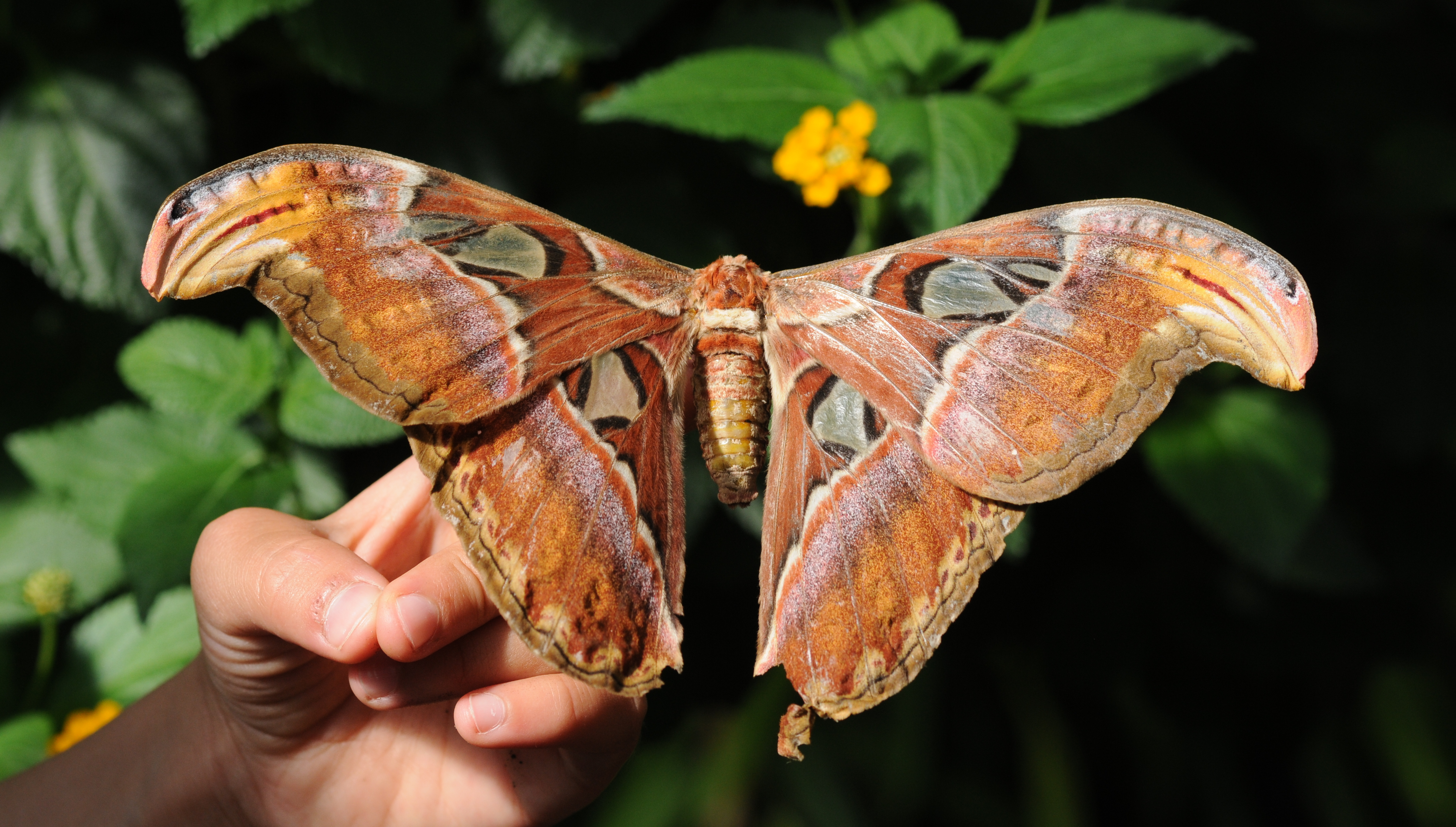 An Atlas moth (Attacus atlas).